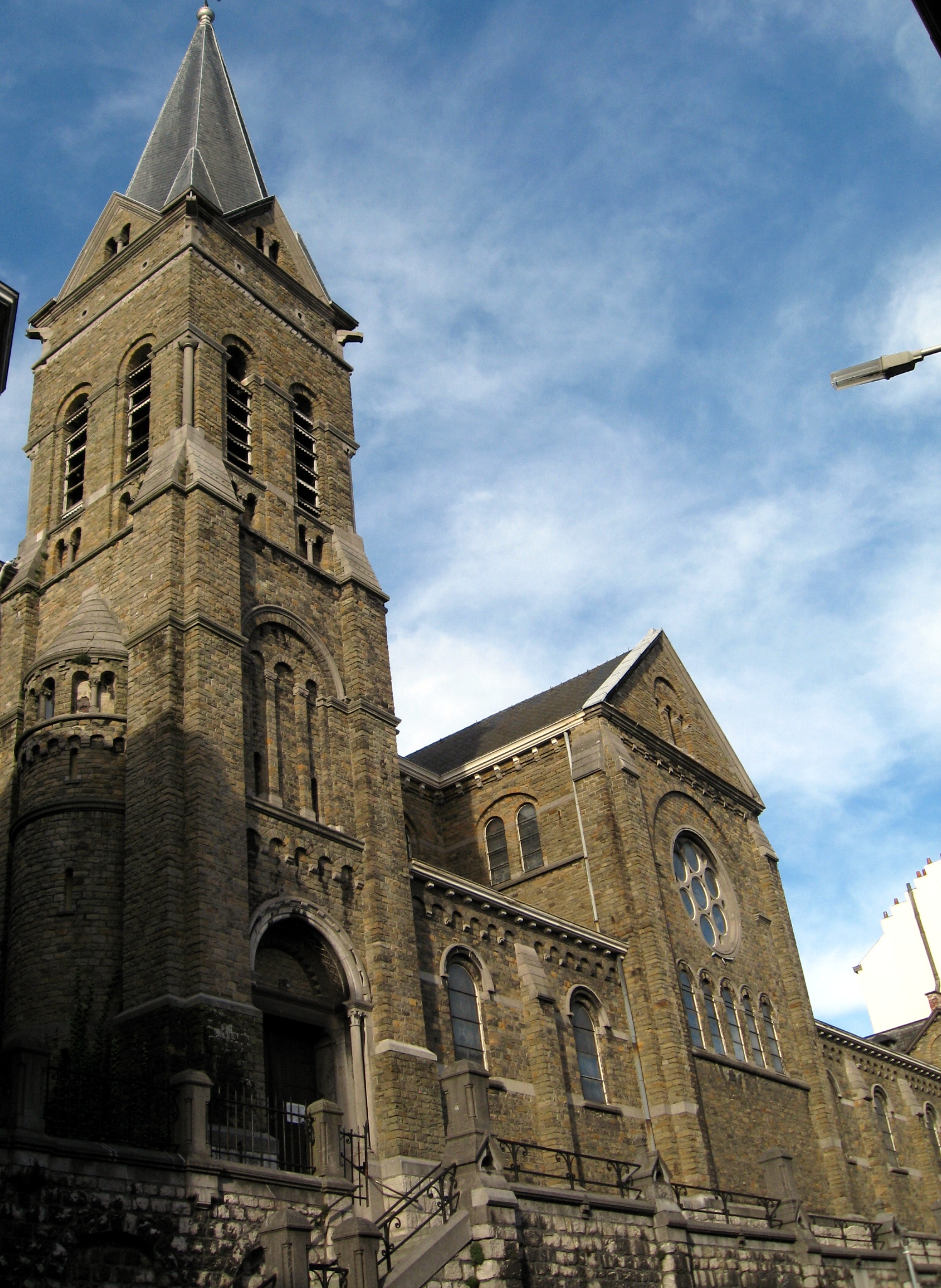 Church of Saint Roch in Andrimont-Bas, Andrimont, Dison, Liège, Belgium